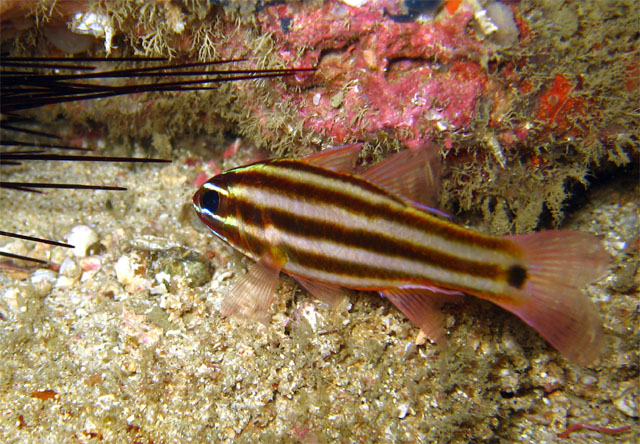 Striped cardinalfish (Apogon angustatus), Puerto Galera, Mindoro, Philippines